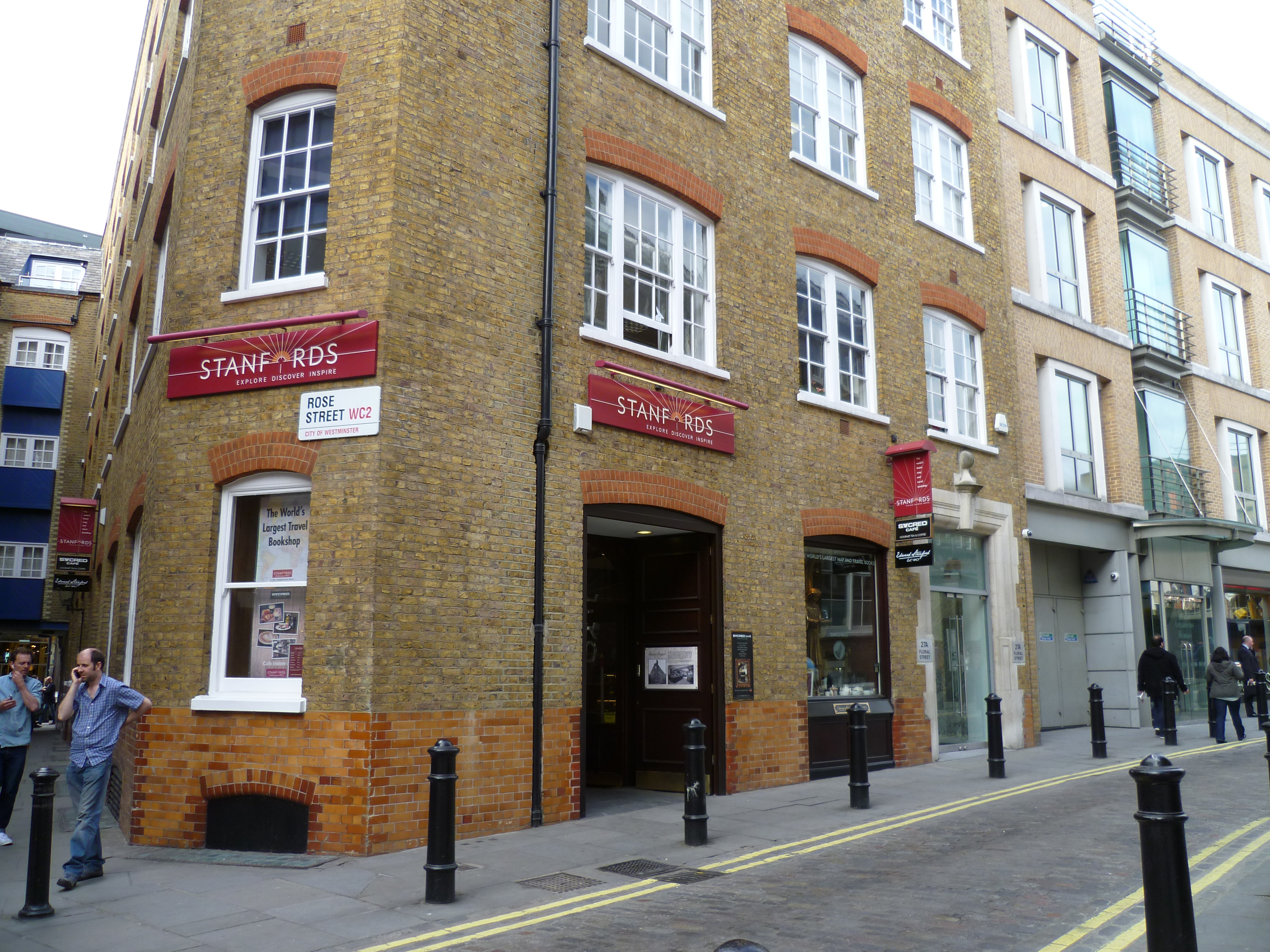 London